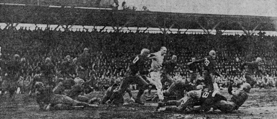 The 1922 Civil War football game in Corvallis, Oregon. The University of Oregon team defeated the Oregon Agricultural College squad (now known as Oregon State University) 10 to 0.